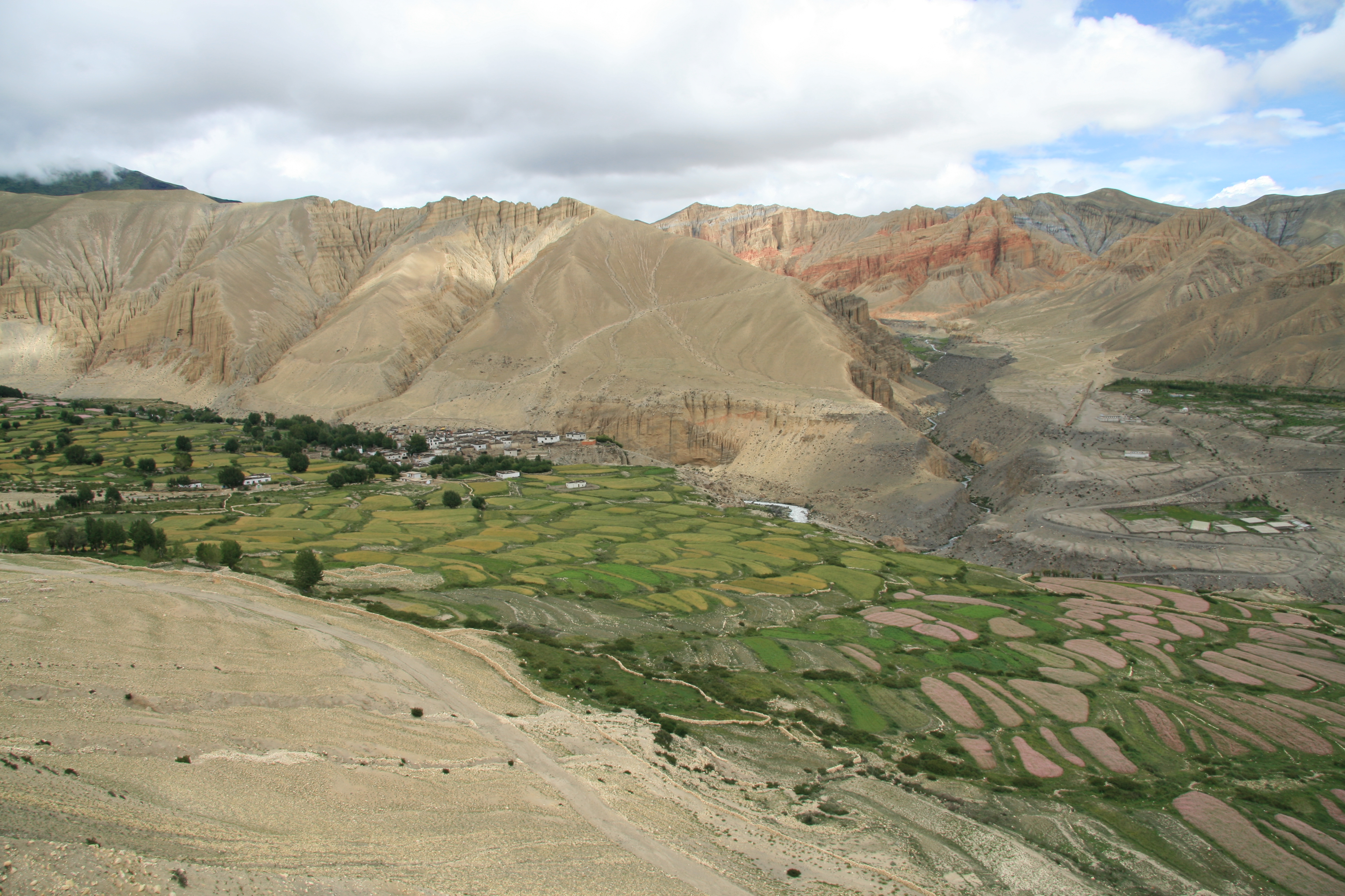 Buckwheat fields in the arid mountain steppes of Mustang